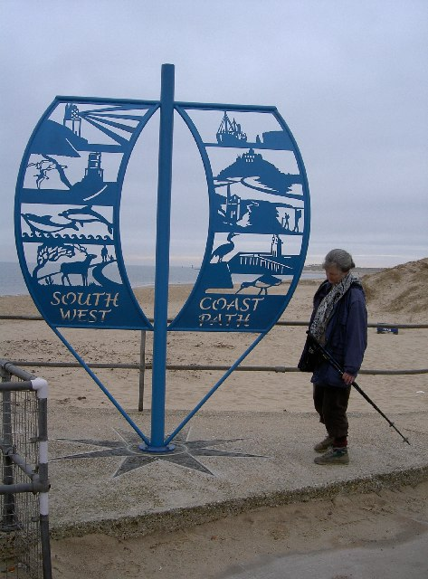 South West Coast Path end marker, South Haven Point, Poole, Dorset, England